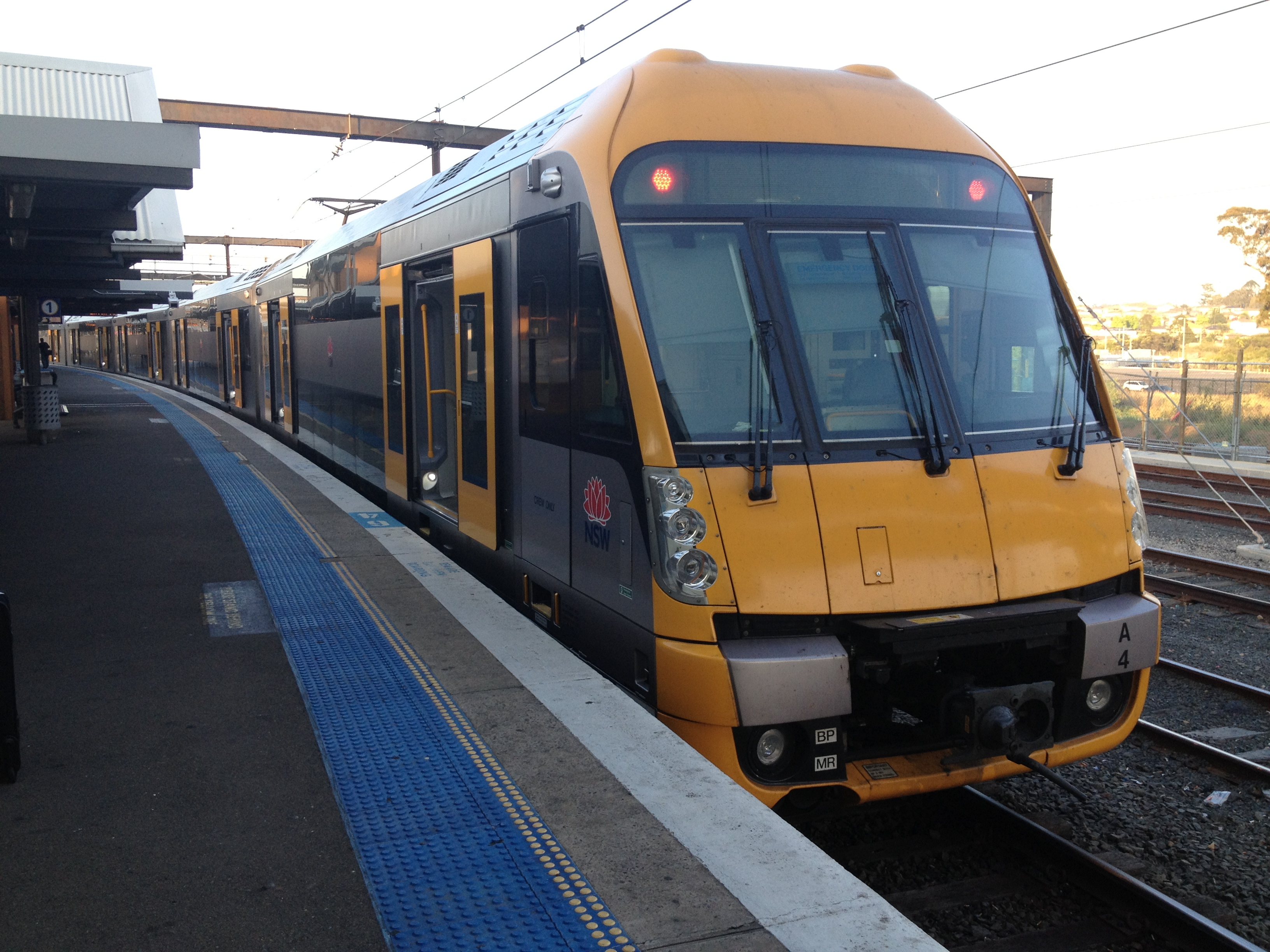 New South Wales A set on platform 1 at Campbelltown Station.